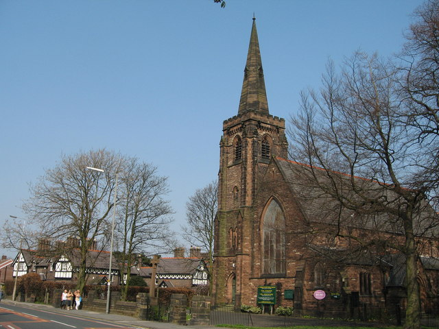 St Stephen's parish church, Belle Vale Road, Gateacre, Liverpool, seen from the southwest. The foundation stone was laid 1 April 1872.